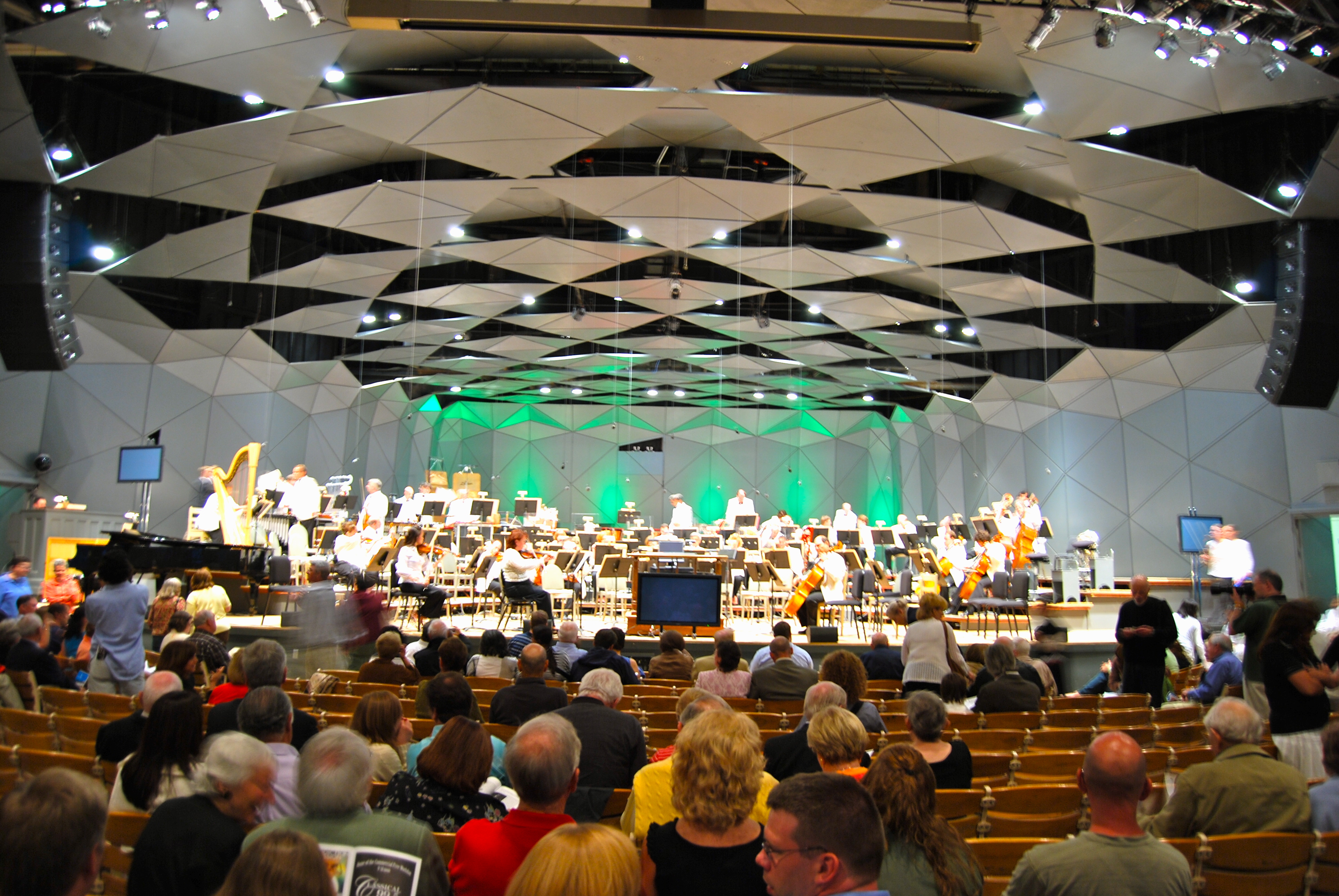 The Boston Pops setting up to play "Film Night at Tanglewood" under the direction of John Williams at Tanglewood in Lenox, Massachusetts, United States